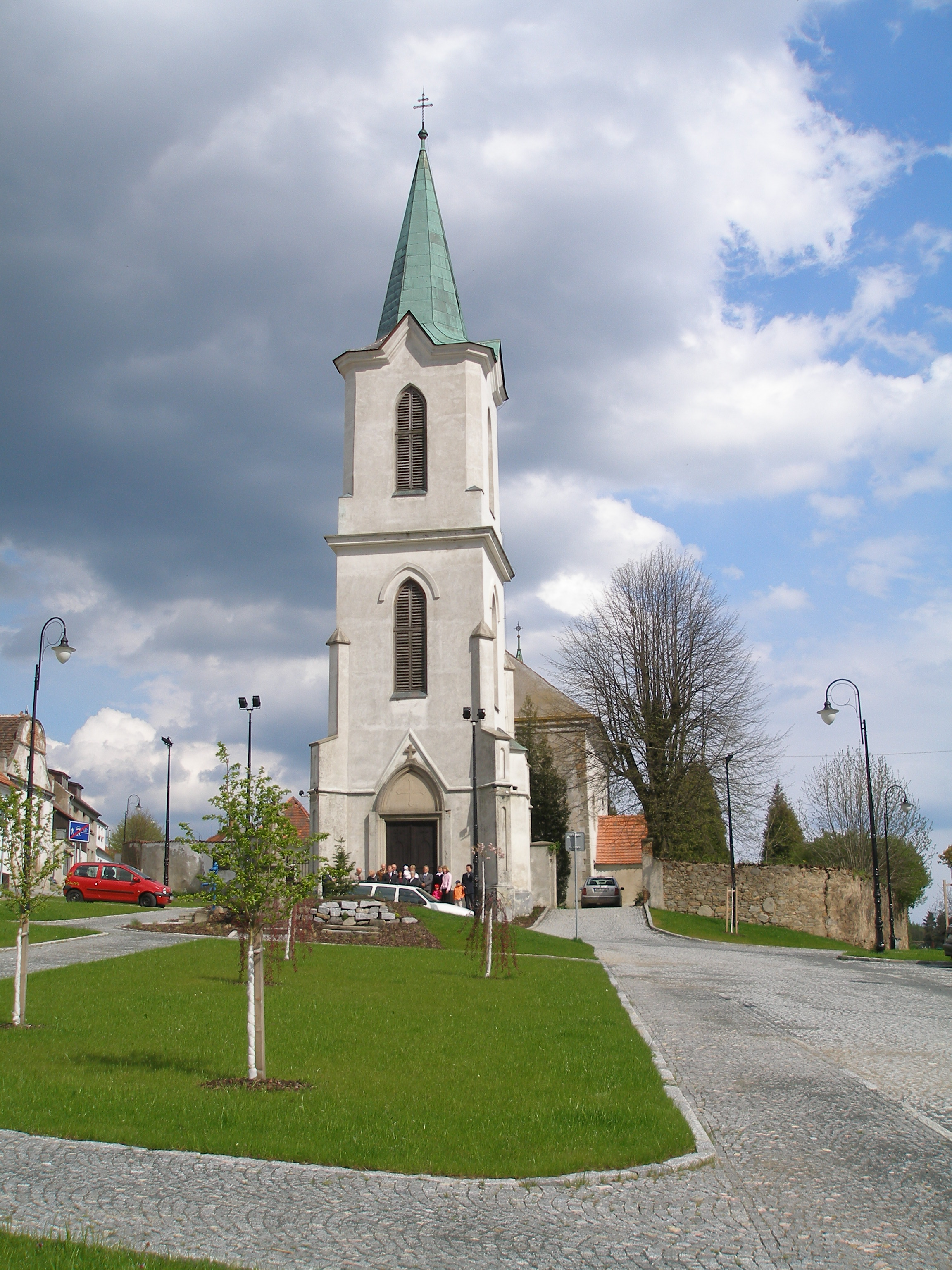 Bělčice (district Strakonice) - Western view of the St. Peter and Paul Church